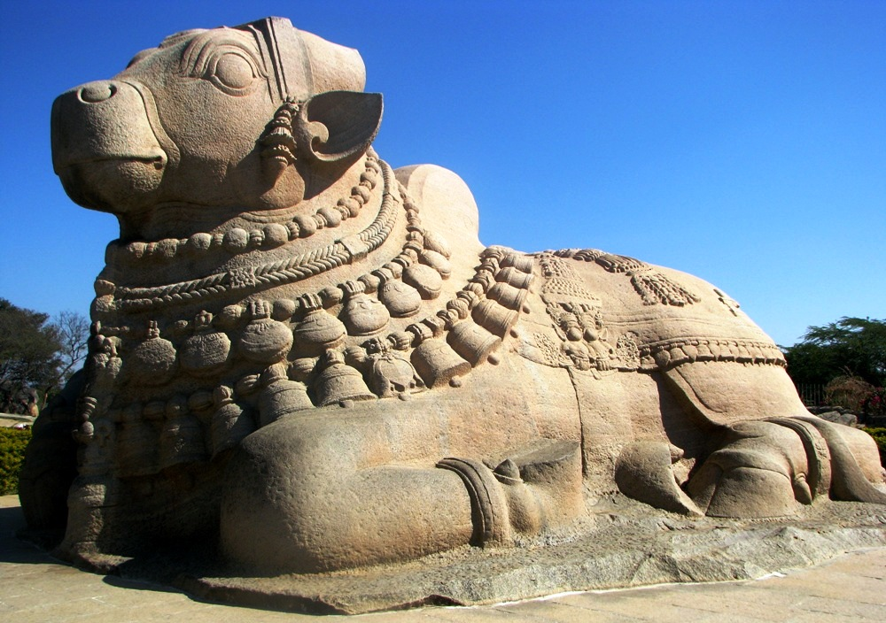 Highest Man Made Stone Nandi, at Lepakshi.